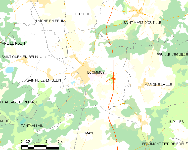 Map of French municipality